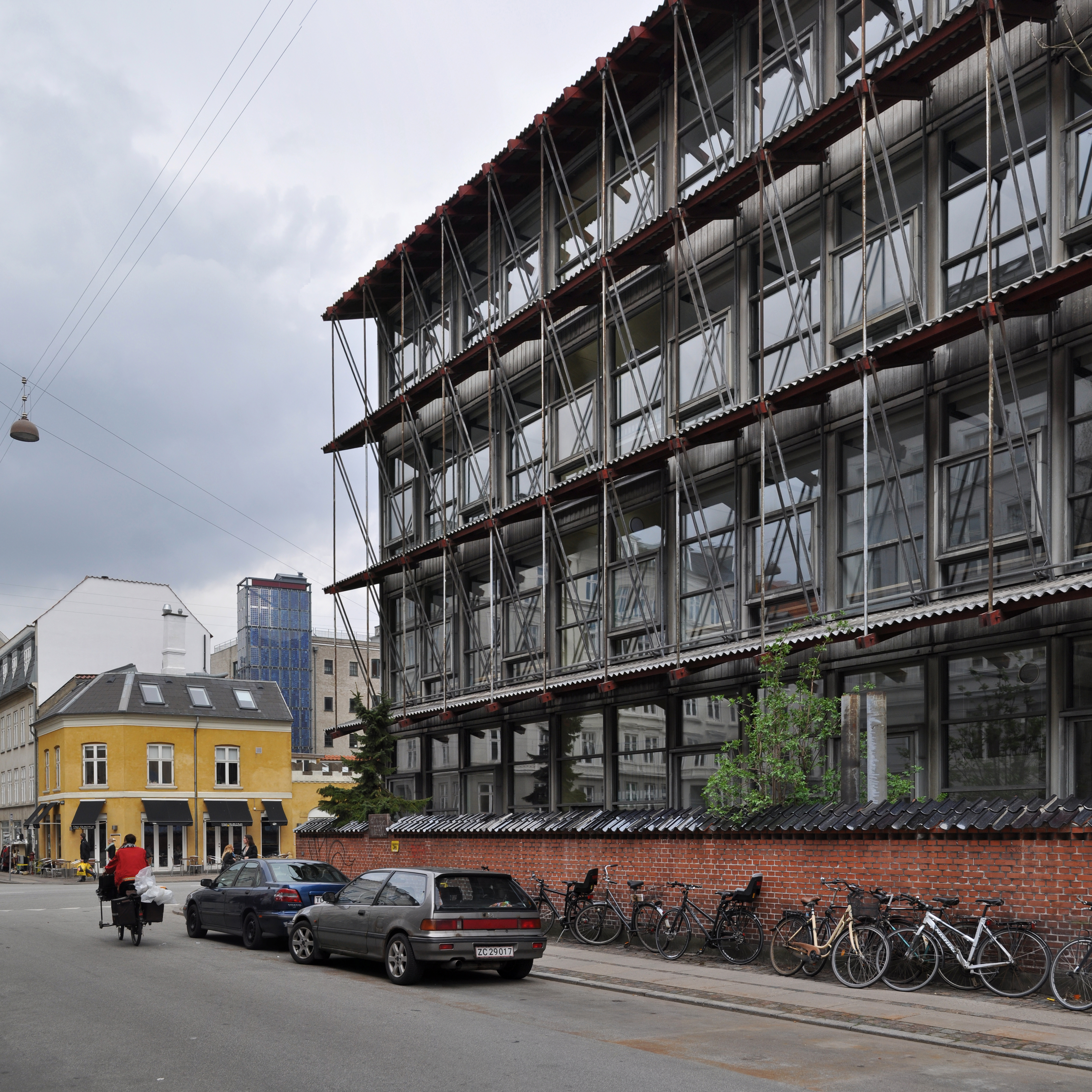 gasværksvejens skole / school, vesterbro, copenhagen 1969-1971. architect: hans christian hansen, 1901-1978, working for the copenhagen municipal architects department. extension of 1879 school in working class neighbourhood vesterbro. hans chr. hansen at seventy, looking a lot younger than most of us. the hans chr. hansen set.